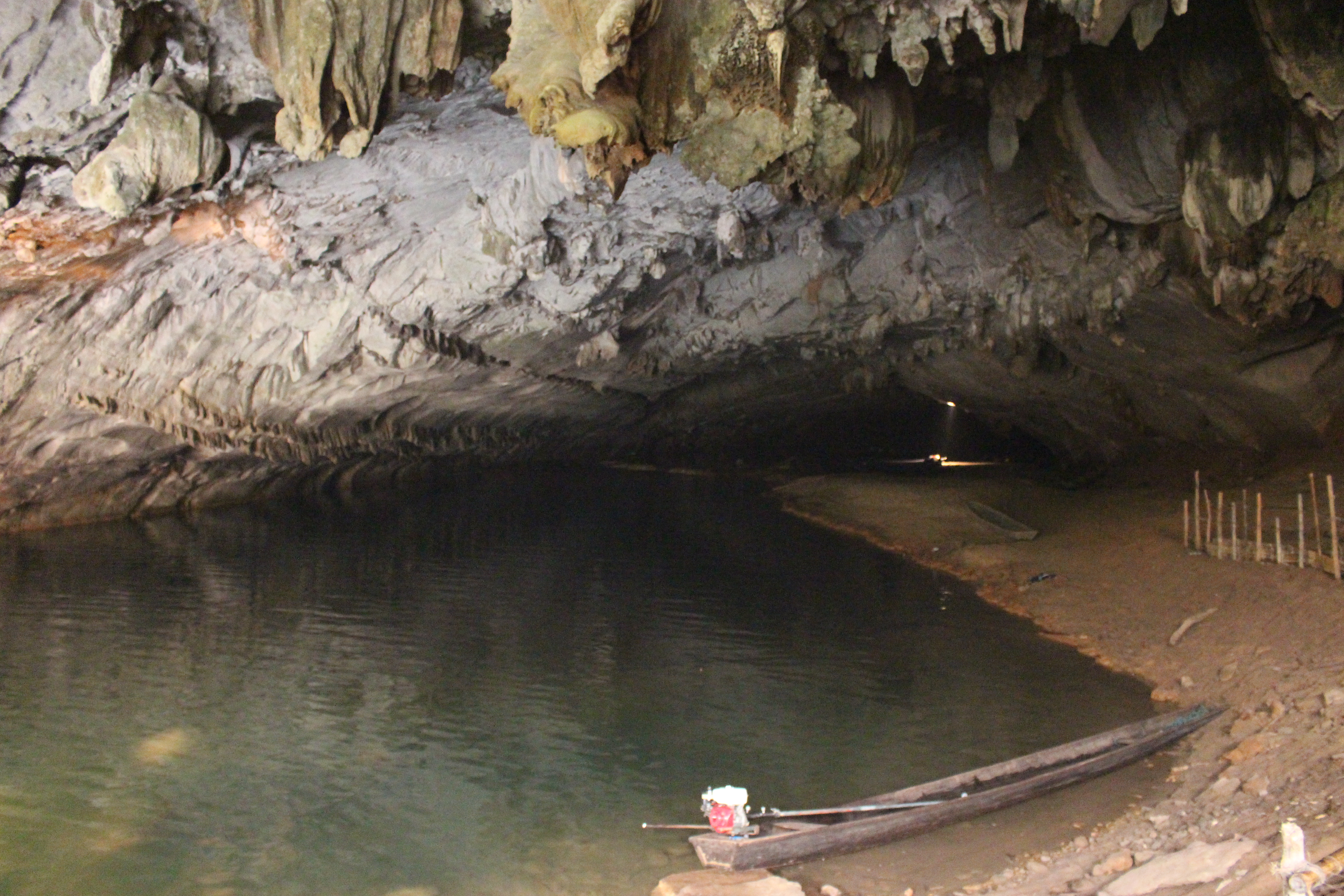 Tham Kong Lo in March 2015; northernwest exit from outside.